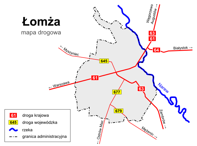 Road map of Łomża City